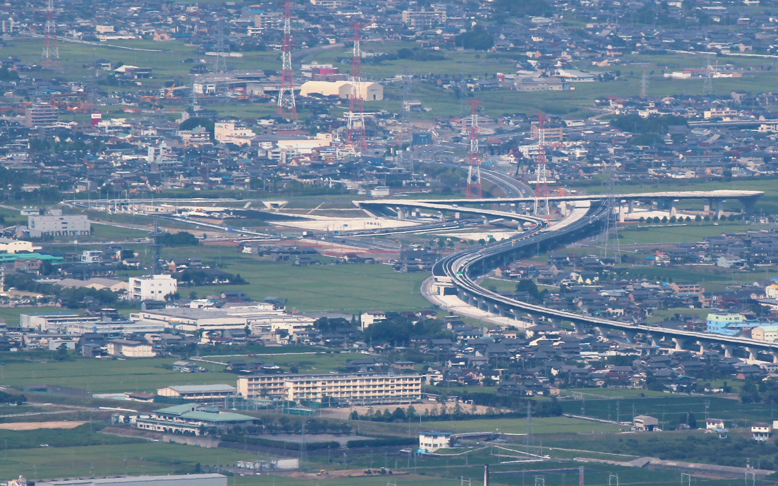 Ogaki-Nishi IC seen from Mount Yōrō